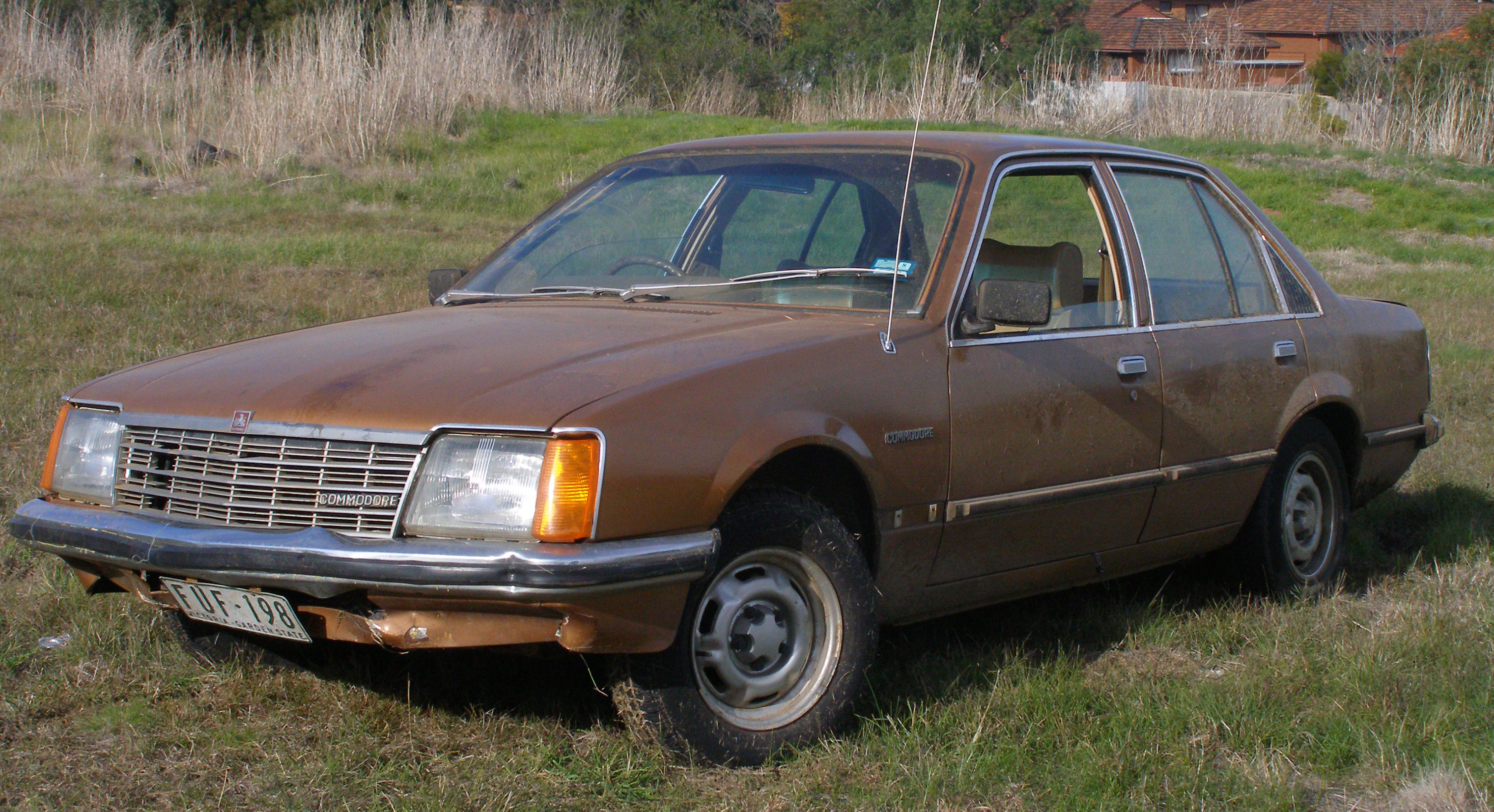 1978–1980 Holden VB Commodore sedan (with a 1978–1980 Holden VB Commodore SL grille), photographed in Victoria, Australia.